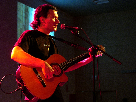 Alcoy singer-songwriter Carles Llinares performing live with VerdCel in Algemesí (Valencia, Spain)